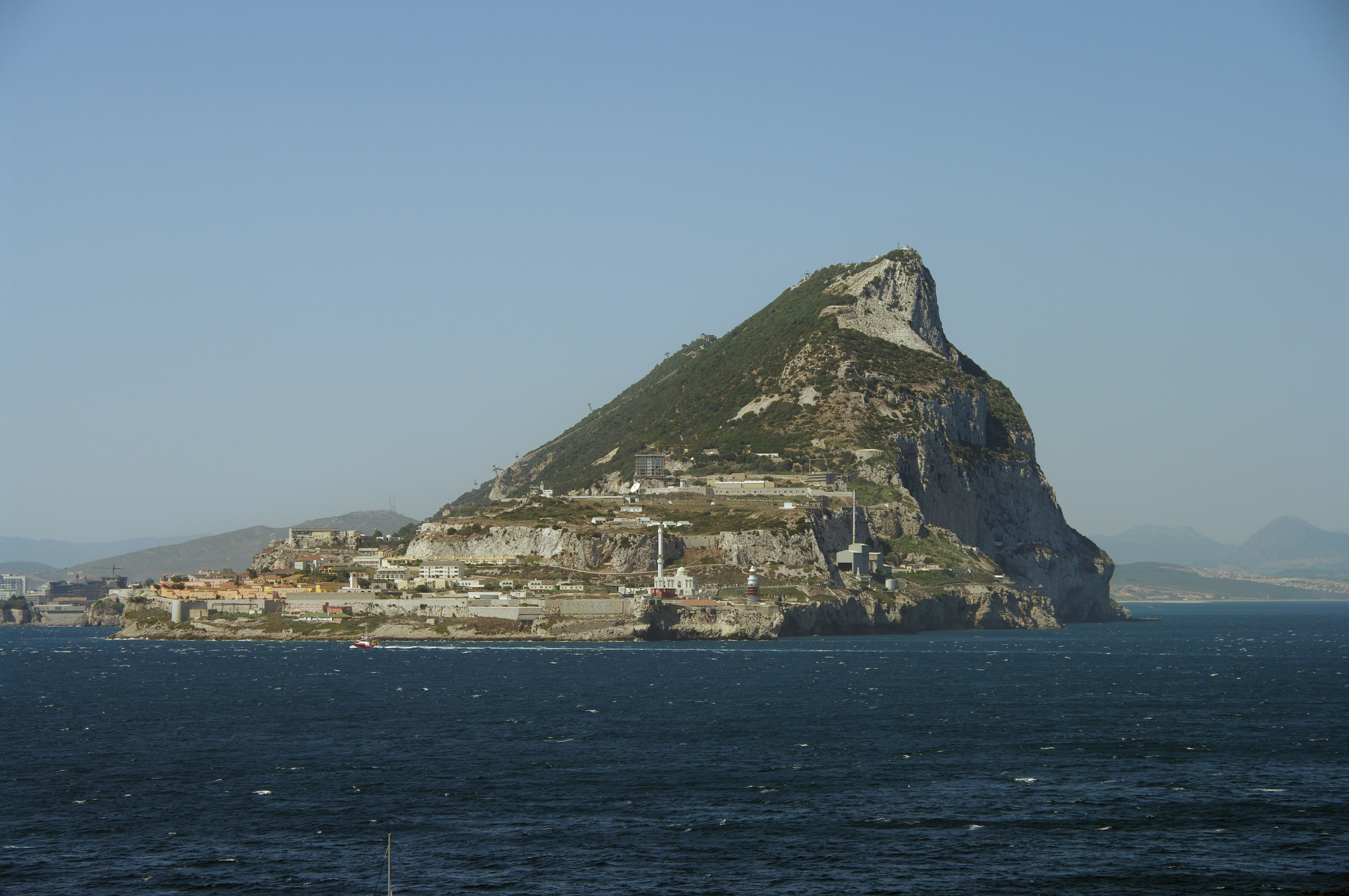 View of Gibraltar from the South. Taken from onboard the Independence of the Seas cruise ship.